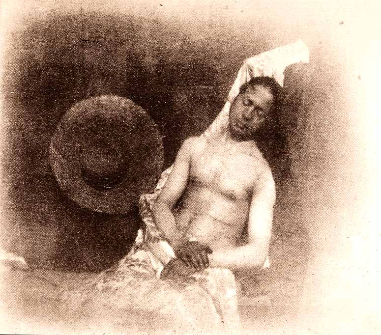 Self-Portrait as a Drowned Man